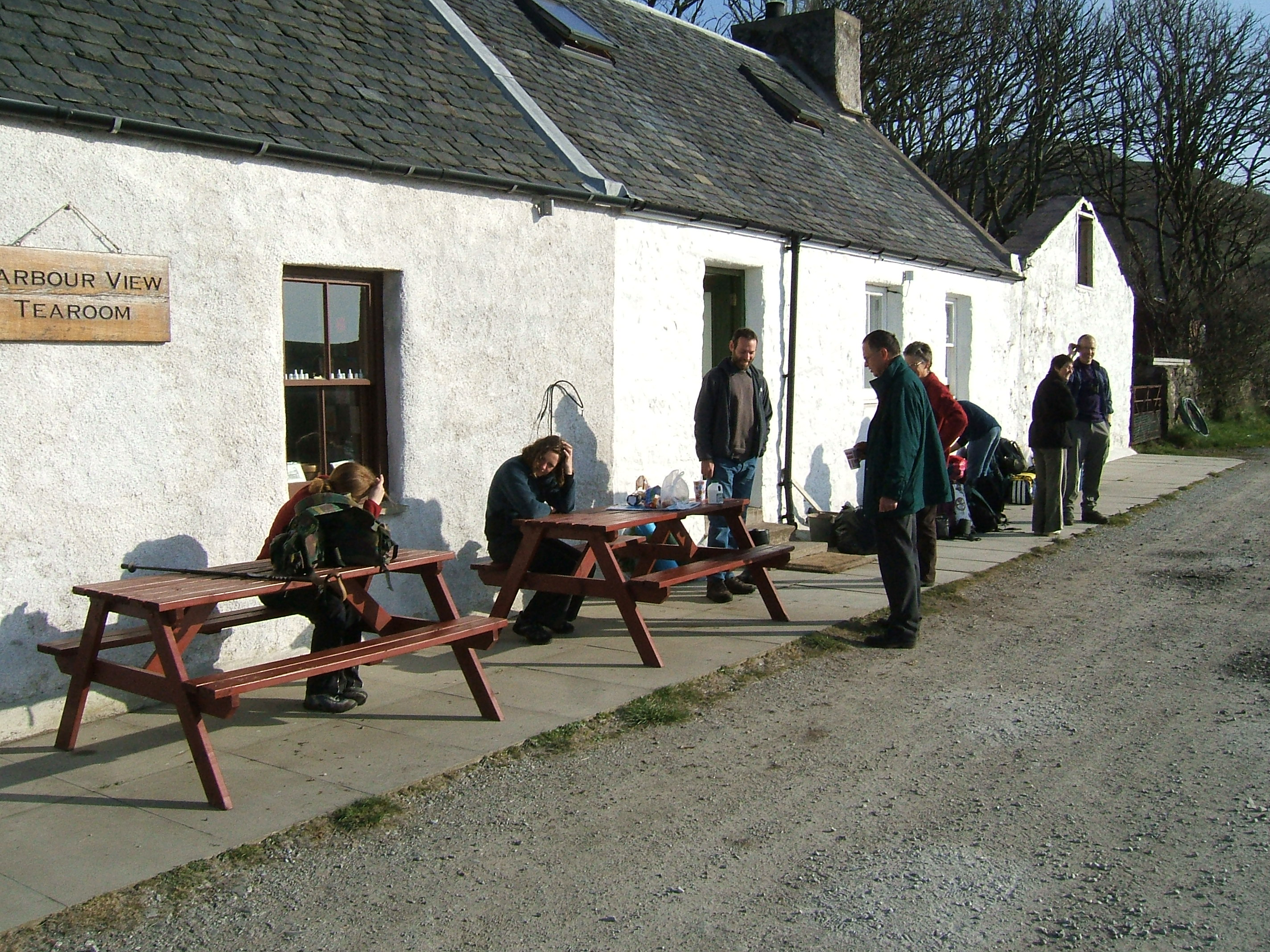 Tearoom and bothy